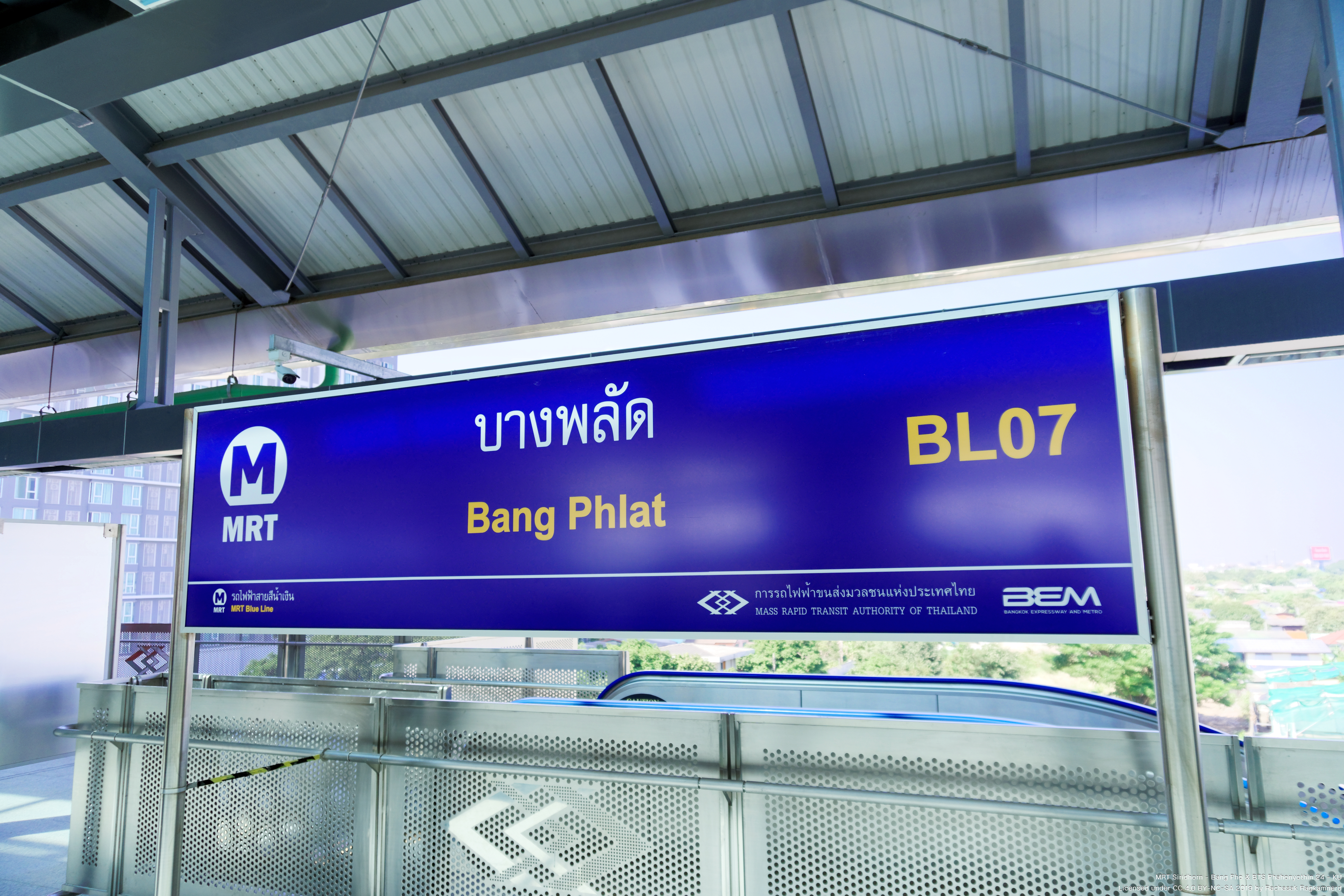 MRT Bang Plad - Traditional station sign